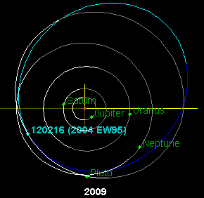 The orbit of (120216) 2004 EW95 compared to Pluto and Neptune. This small plutino is currently well inside the orbit of Neptune even though its orbit is dominated by Neptune.